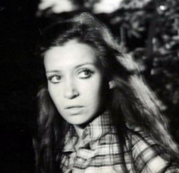 Cristina Fernández during her youth